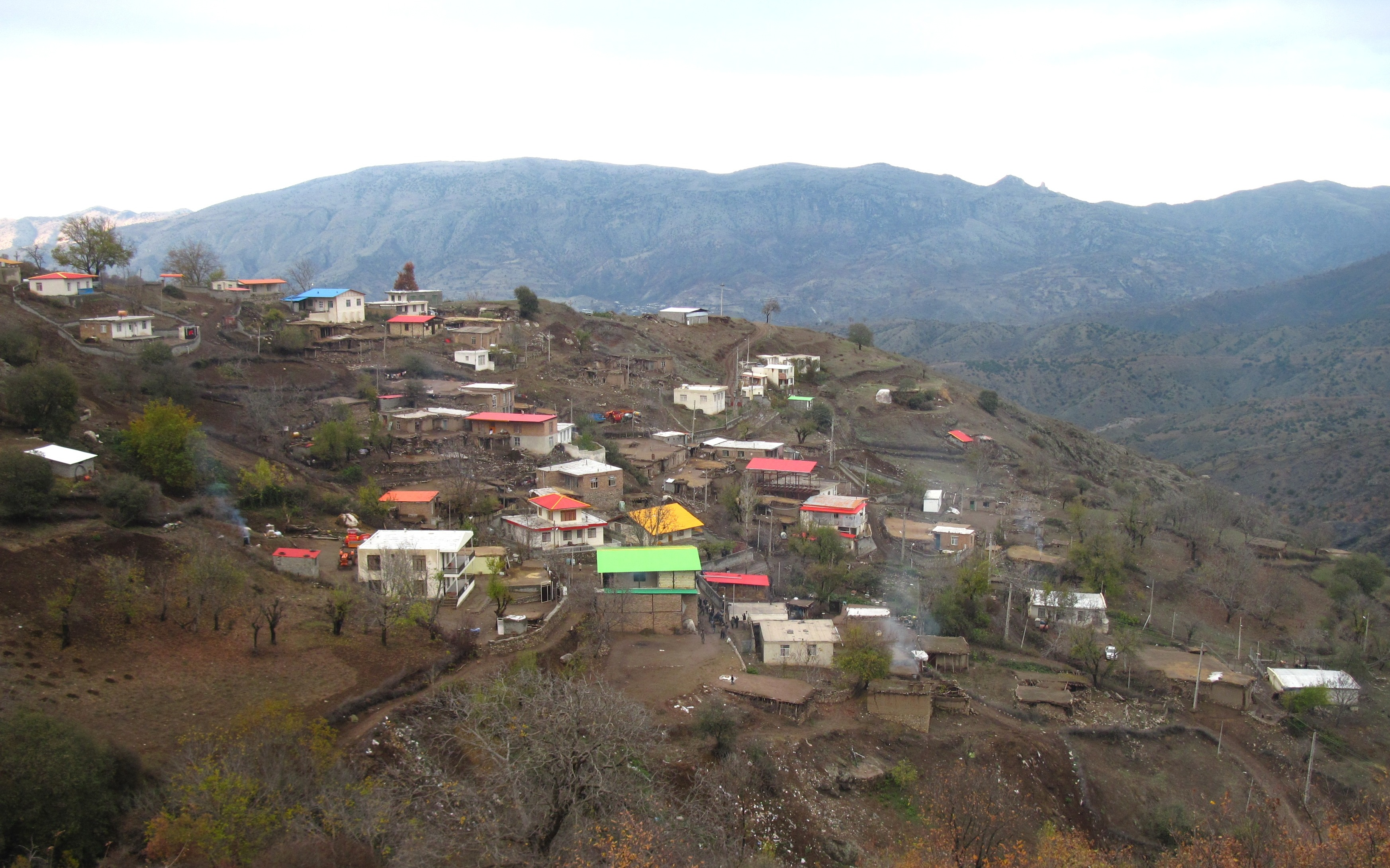 This photo is uploaded for Alherd, Khoda Afarin wikipage.